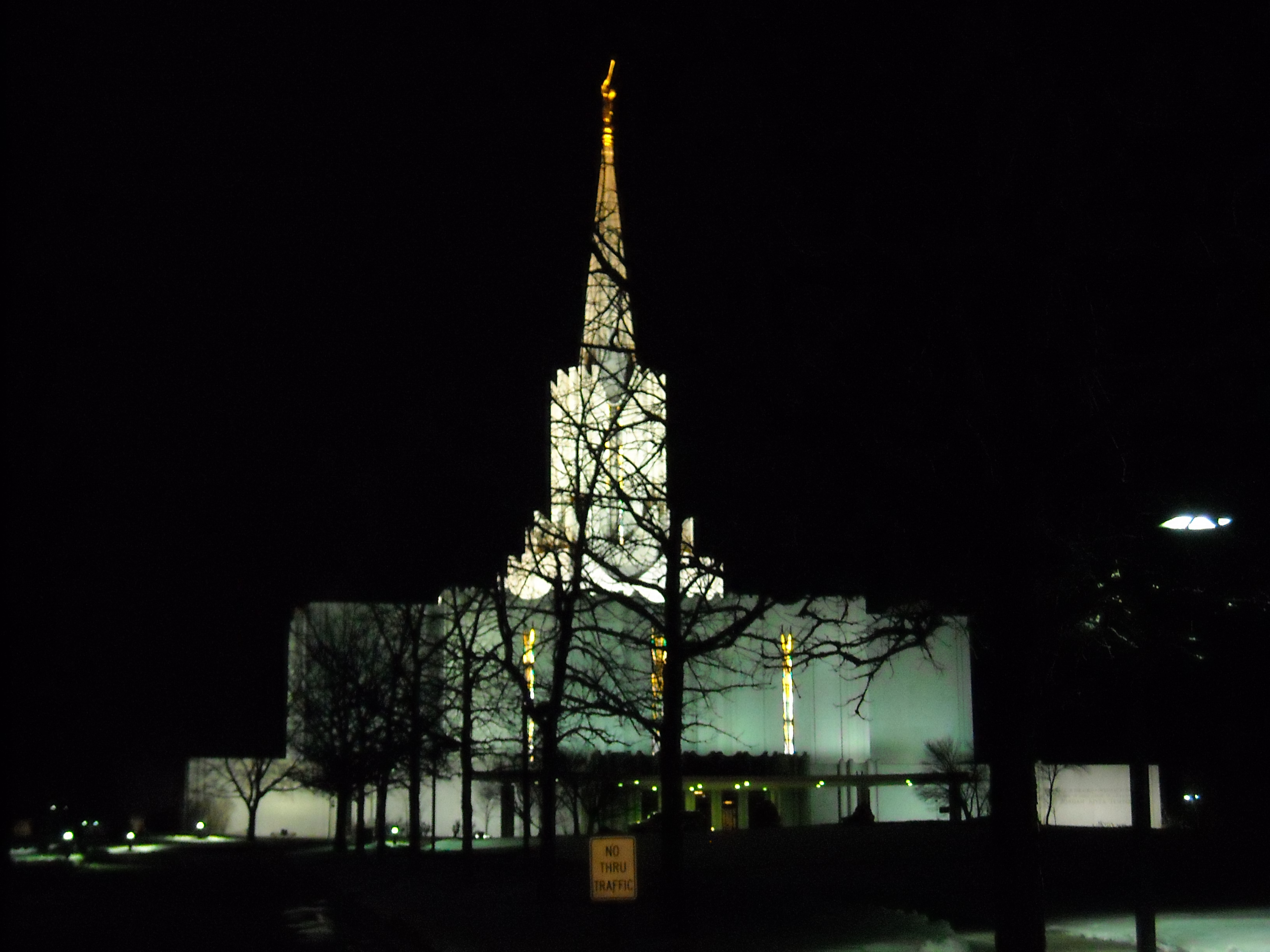 Jordan River Utah Temple at night, South Jordan, Utah.